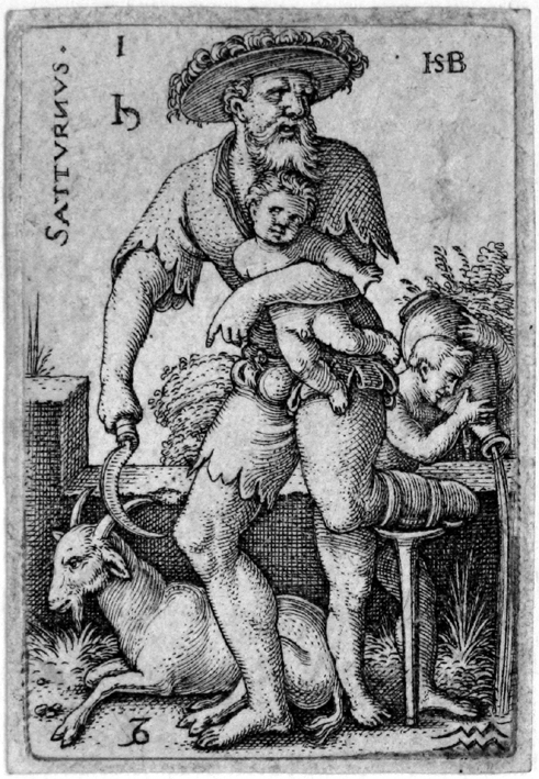 Beham, (Hans) Sebald (1500-1550): Saturn, from The Seven Planets with the Signs of the Zodiac, 1539 (Bartsch 114; Pauli, Holl. 116), second state of 5, trimmed to or just outside the platemark, in very good condition.